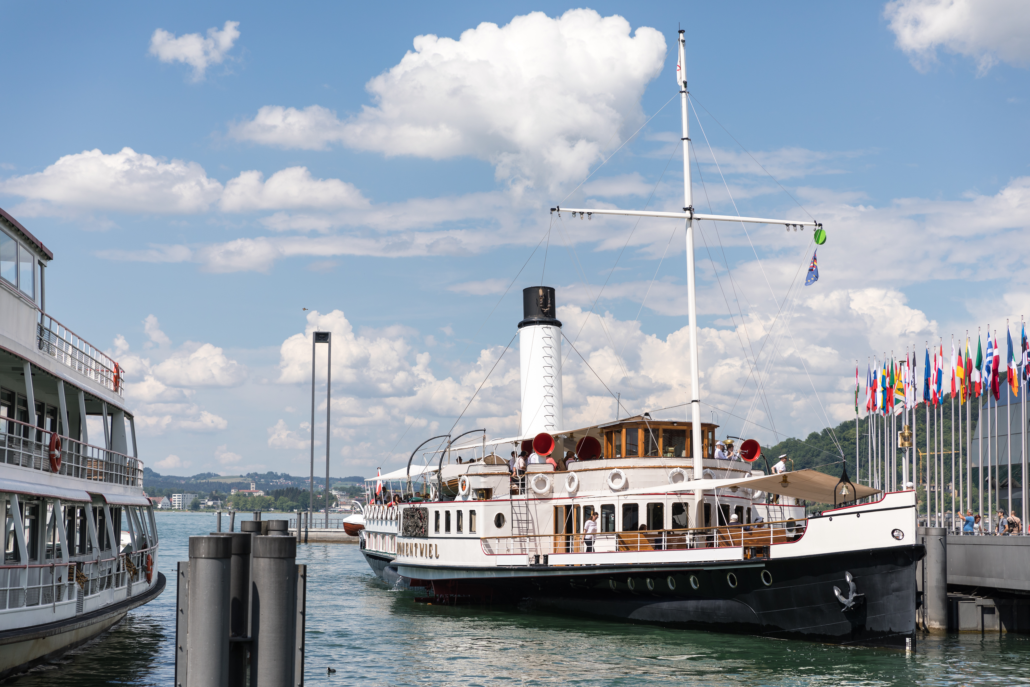 The last steam paddler on Lake Constance: SS "Hohentwiel" (Built 1913) in Bregenz, Vorarlberg, Austria.